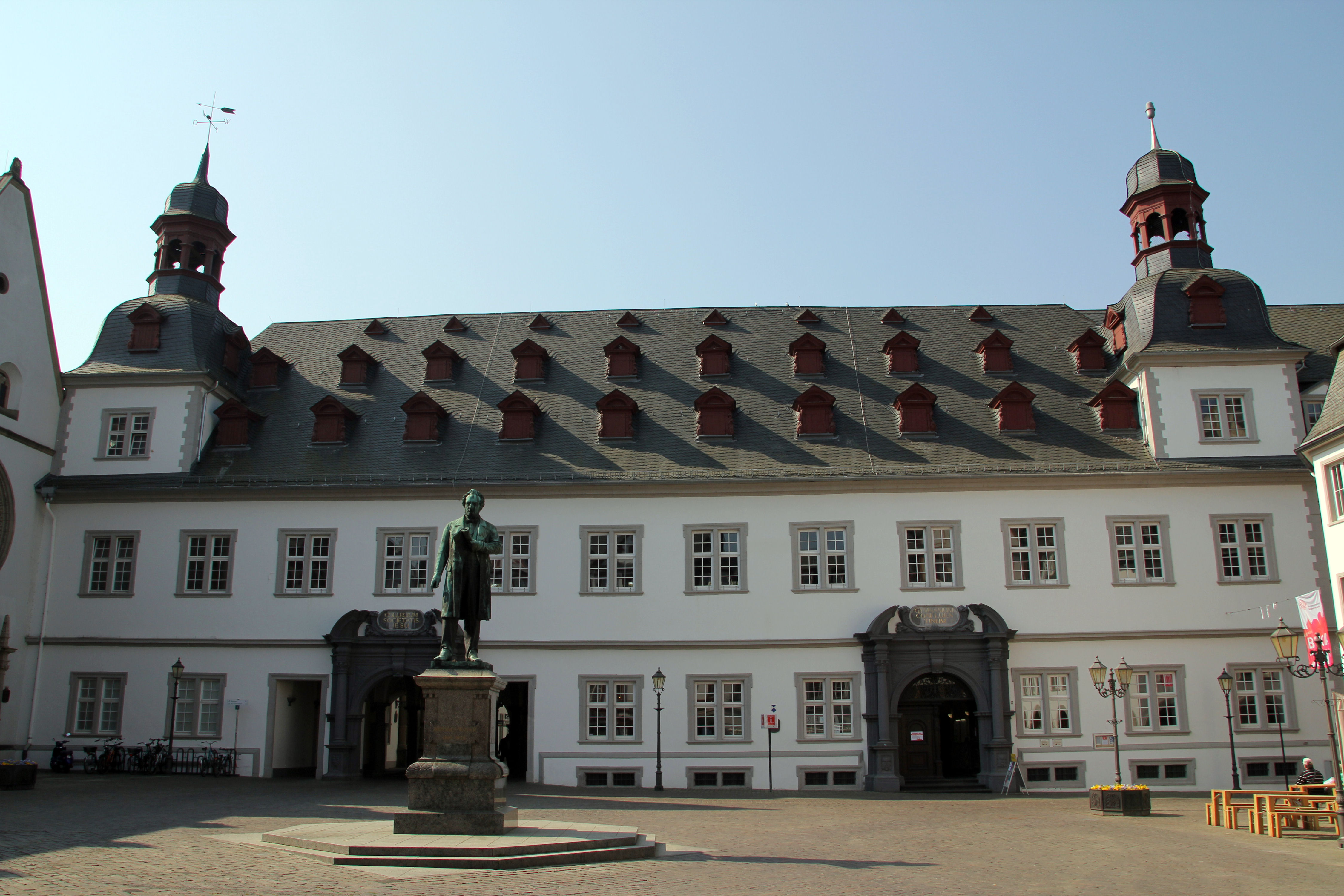 City hall of Koblenz